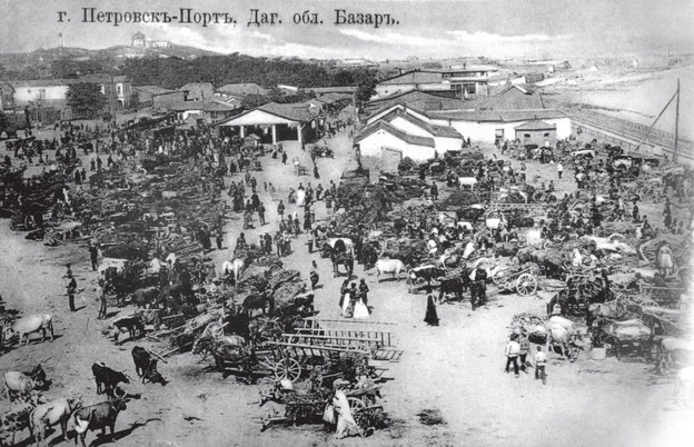 Piazza, Petrovsk